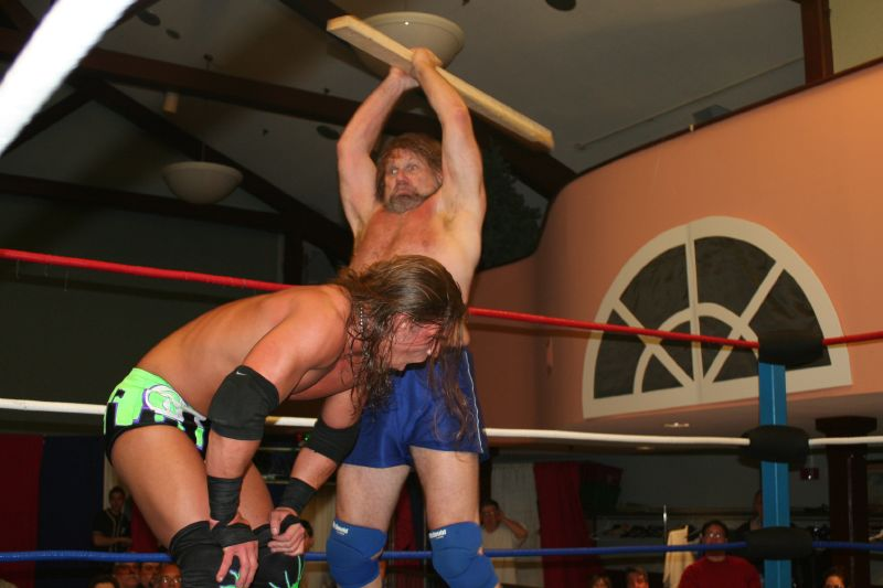 Jim Duggan in Power and Glory Wrestling